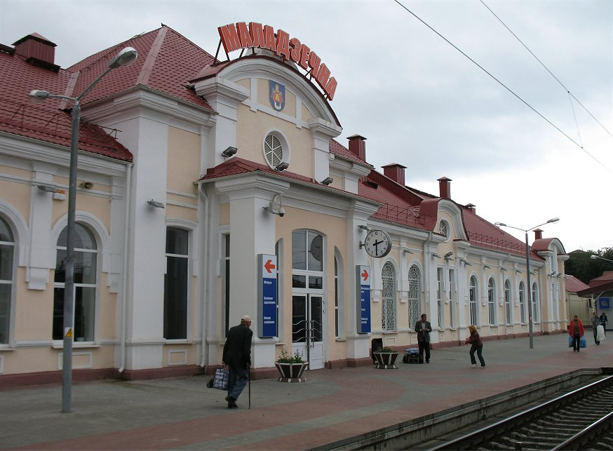 Railway station Maladzetšna (Маладзе́чна, Молоде́чно, Molodetšno, Mołodeczno, Maladzyechna) in northwestern Minsk Region, Belarus. This railway station is located on the main railway between Minsk and Vilnius. Its also serves as one of the key stations/ intersections as part of the local train network serving the Minsk region.